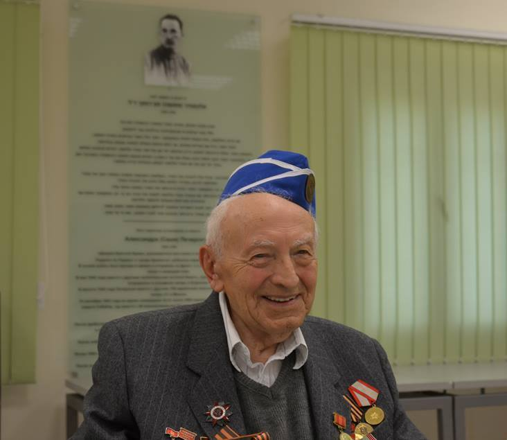 Semen Moiseevich Rosenfeld (Israel, 2015)